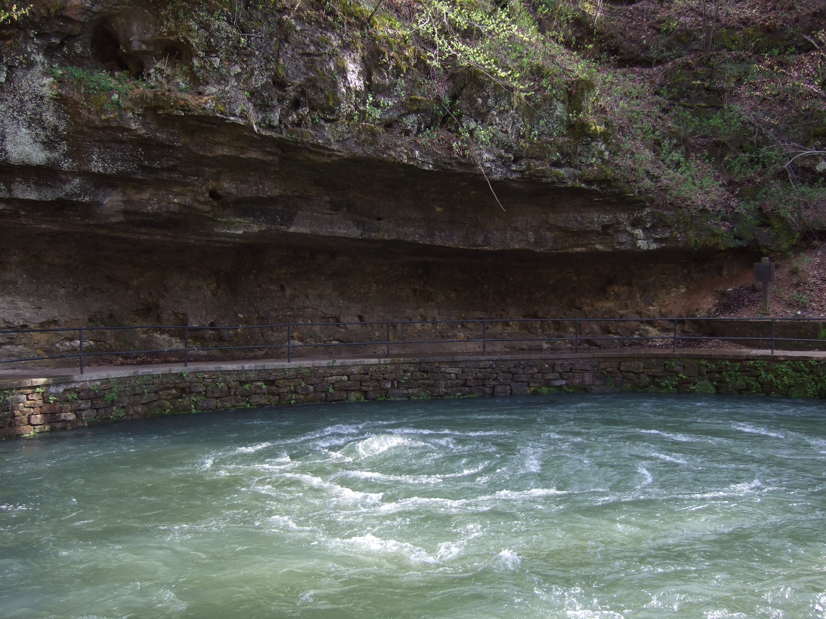 Maramec Spring, which gives rise to Meramec river, MissouriMaramec Spring is the fifth largest spring the state of Missouri with an average daily flow of of around a hundred million gallons of warer (~26 bathtubs every second). Rain that falls several miles from the spring seeps into the earth and becomes groundwater, which then comes to the surface and is released as a spring. Rainbow and brown trout can be found in the area.--From Maramec Spring Self-Guided Walking Tour